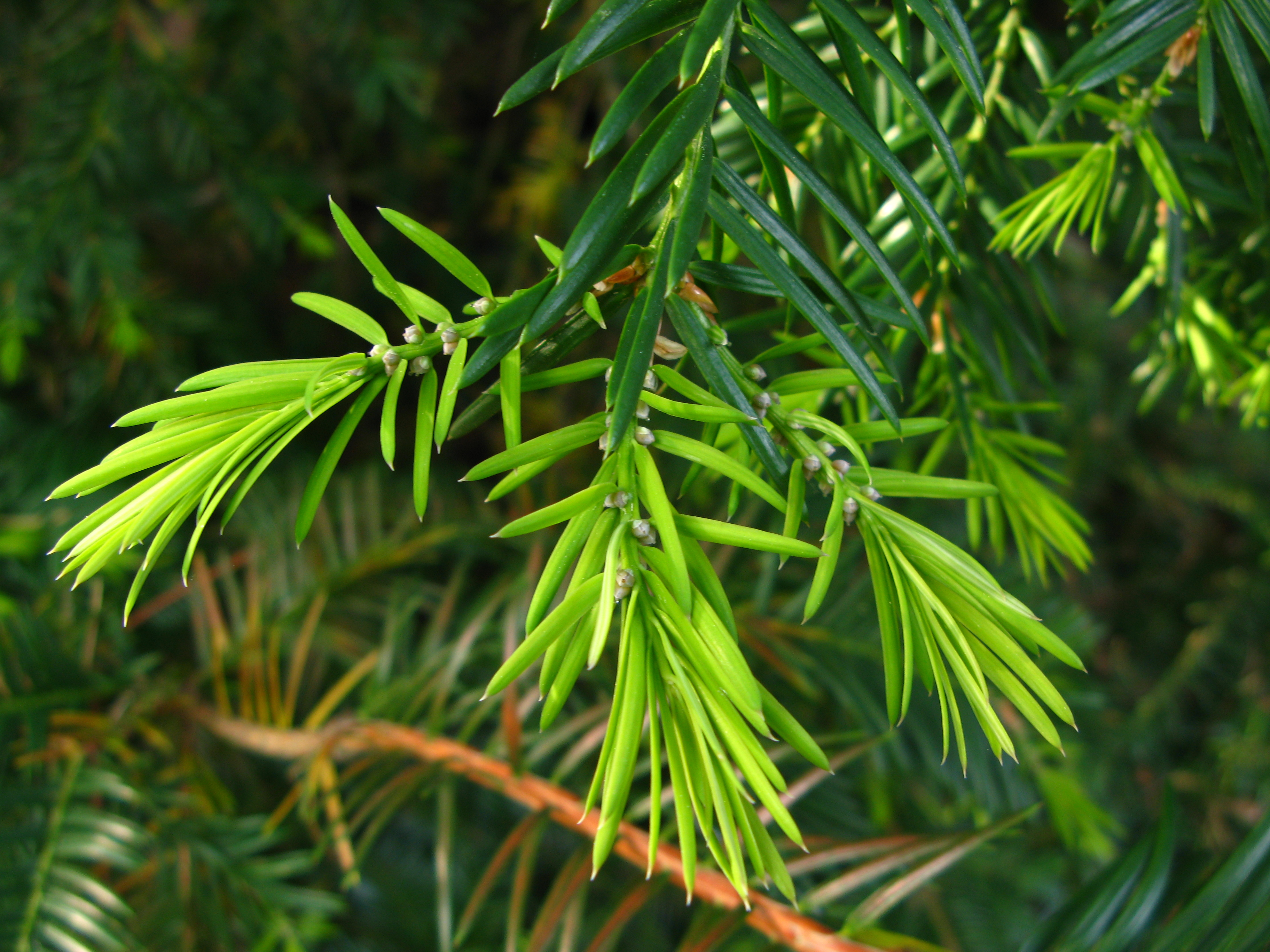 Branch of Torreya californica in PAN Botanical Garden in Warsaw